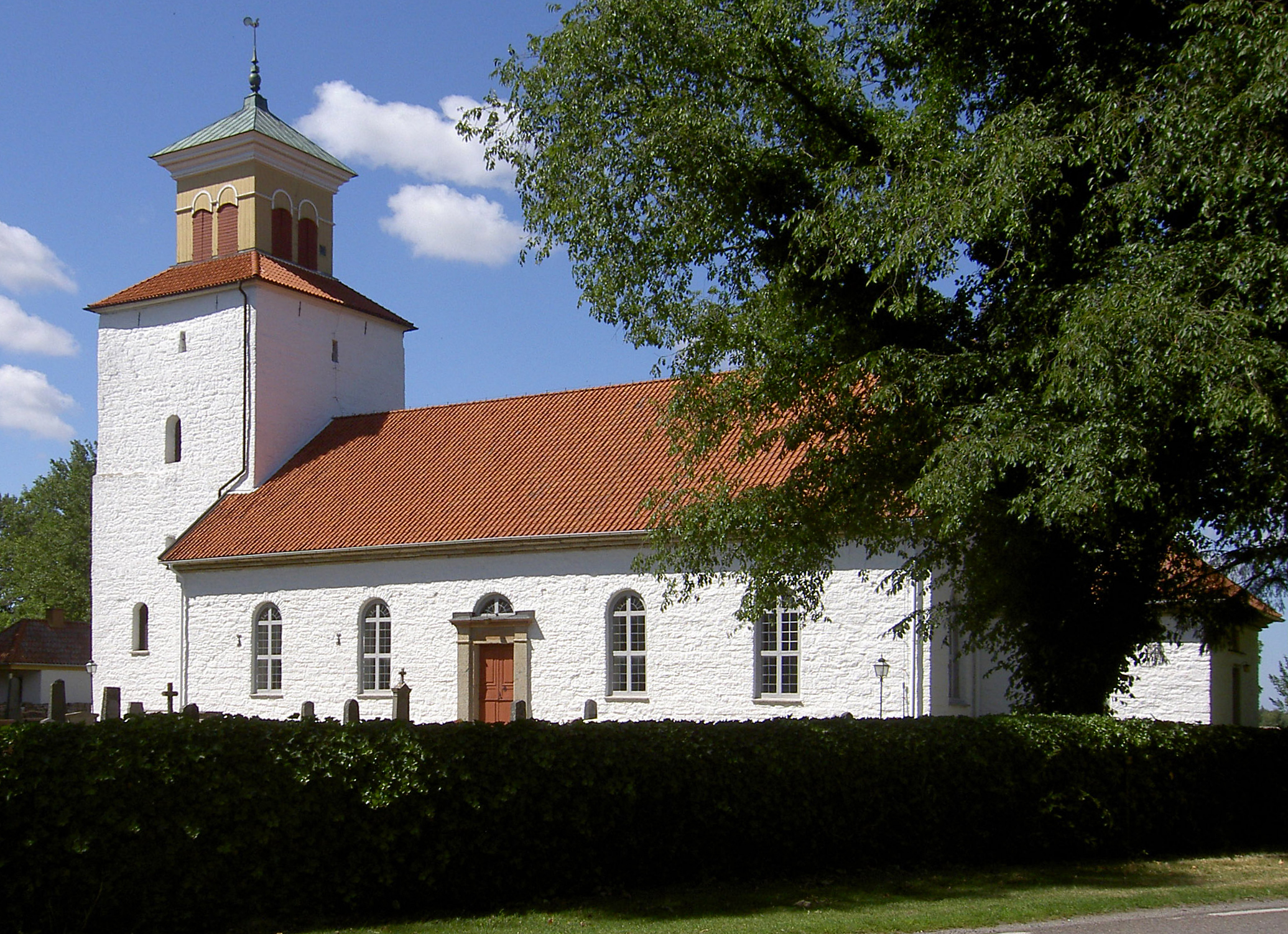 Löts kyrka, Öland, Sweden